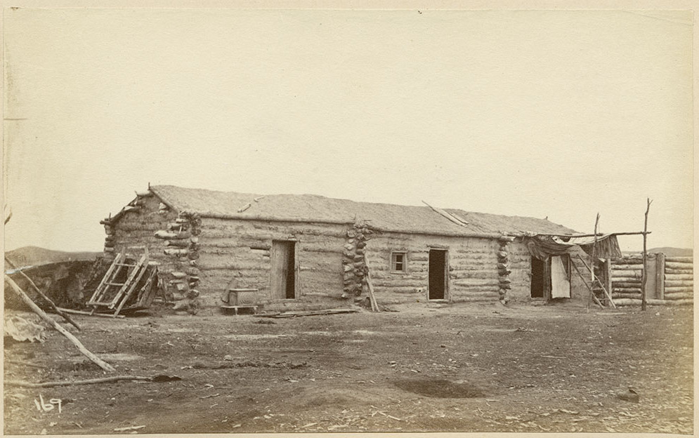 Log hut - Métis Settlement, Wood Mountain, Sask. 22 miles North of Boundary and 416 miles of Red River